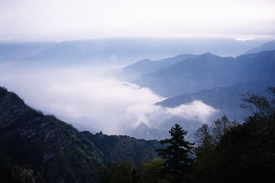 This is a photo taken from Ali Mountain in Central Taiwan. I took this myself in spring 2003. Please credit me (Michael Cannings) when reproducing the photo.